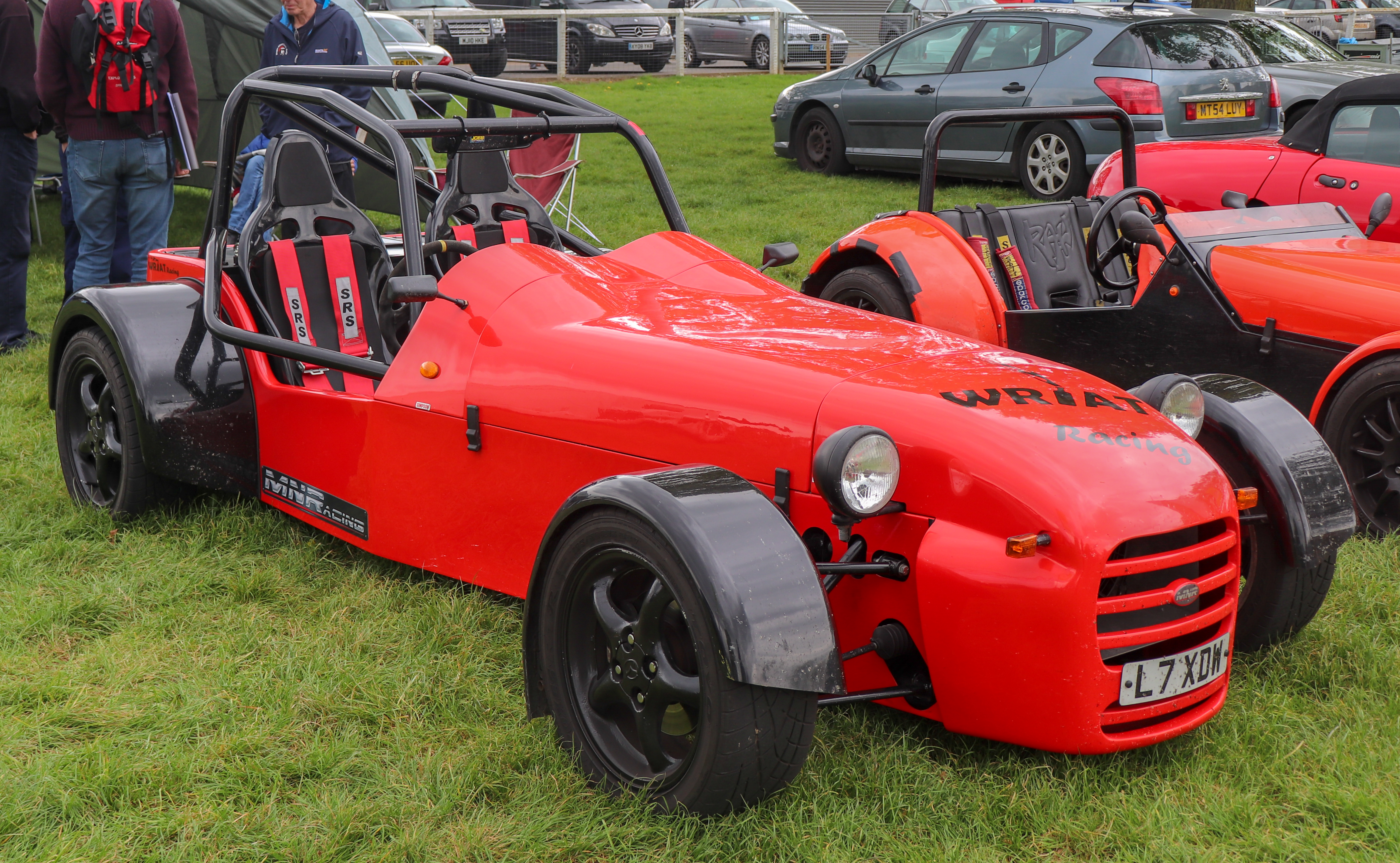 2010 MNR VortX RT+1.8 Front Taken at the Stoneleigh National Kit Car Motor Show 2019